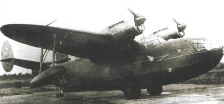 Chyetverikov Che-2 (MDR-6) plane.